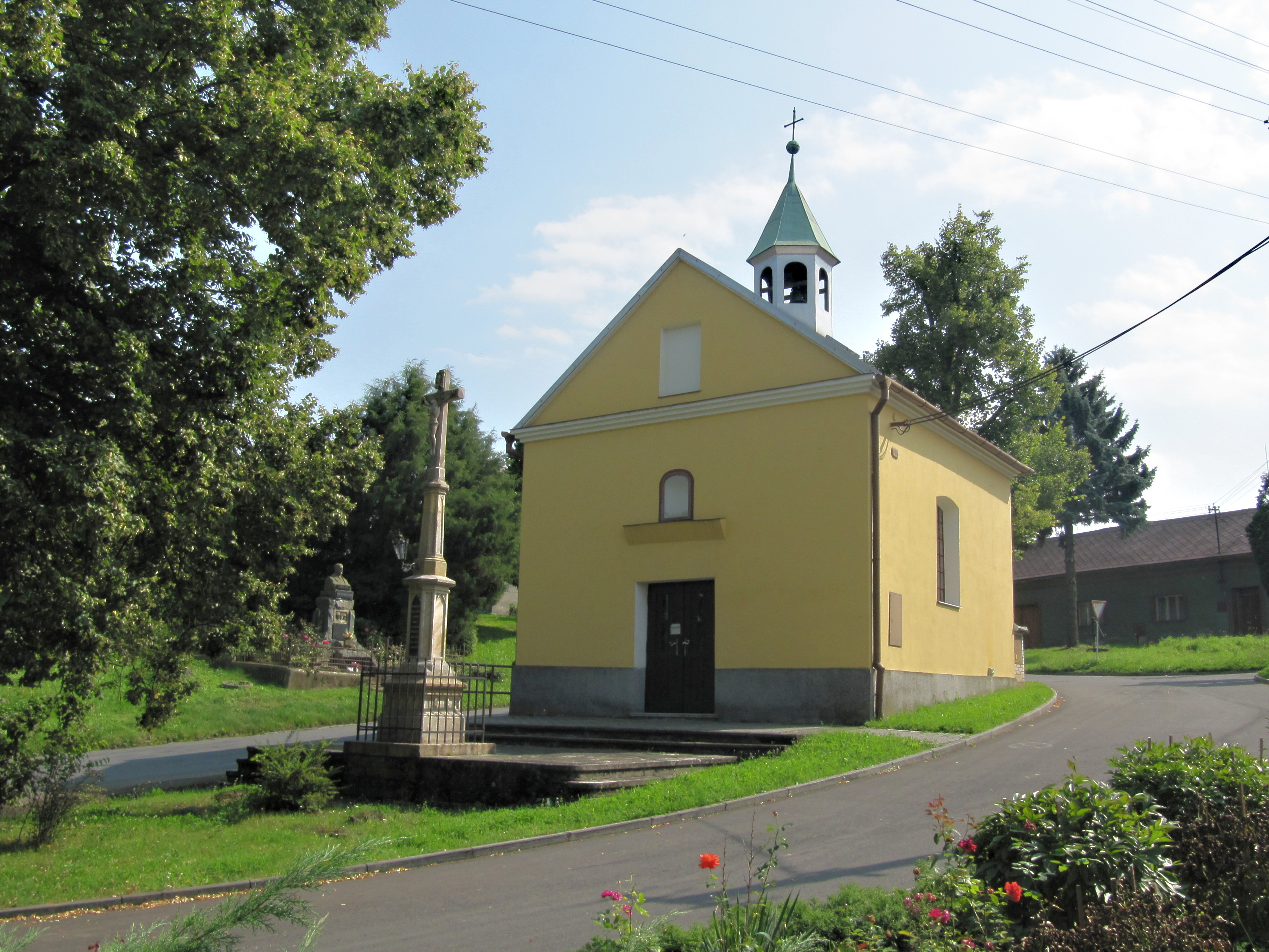 Lazníky, Czech Republic, Přerov District. Common with the chapel of St. Florian from the year 1825, the crucifix and memorial to T.G. Masaryk. This photograph was taken within the scope of the third year of the 'Czech Municipalities Photographs' grant.